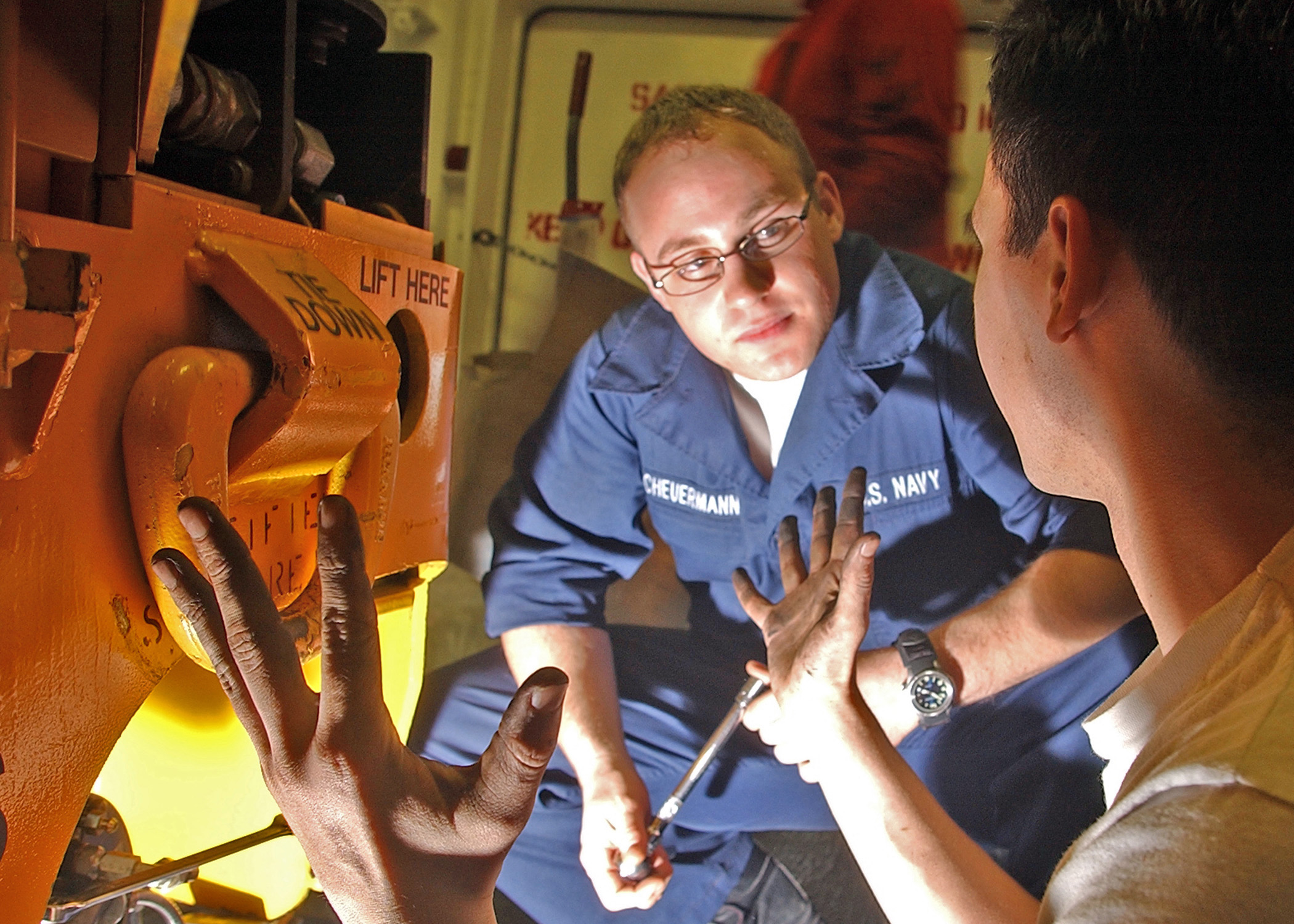 Persian Gulf (Jan. 11, 2005) – Airman Richard Giesbrecht, right, explains to Airman Jeffrey Scheuermann the basics of how brake cables work wile working an a shipboard forklift aboard USS Harry S. Truman (CVN 75). The Nimitz-class aircraft carrier and her embarked Carrier Air Wing Three (CVW-3) are providing close air support and conducting intelligence, surveillance and reconnaissance (ISR) missions over Iraq. The Truman Carrier Strike Group is on a regularly scheduled deployment in support of the Global War on Terrorism. U.S. Navy photo by Photographer's Mate Airman Eric S. Garst (RELEASED)